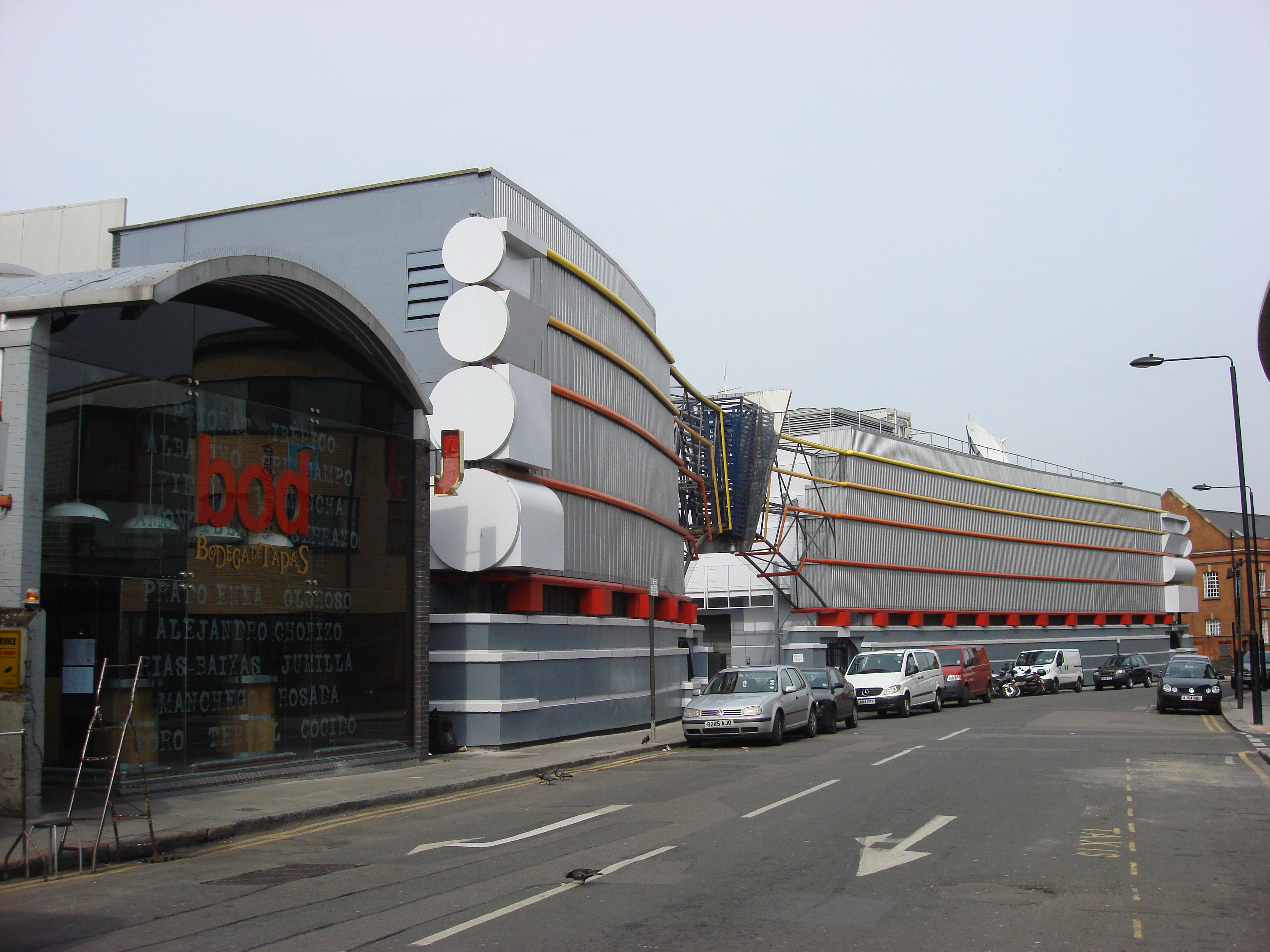 TV-am's custom-built studio complex at Camden lock